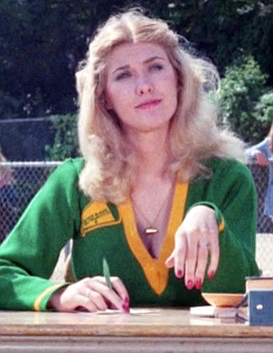 Colleen Camp in trailer to "The Swinging Cheerleaders" (1974)